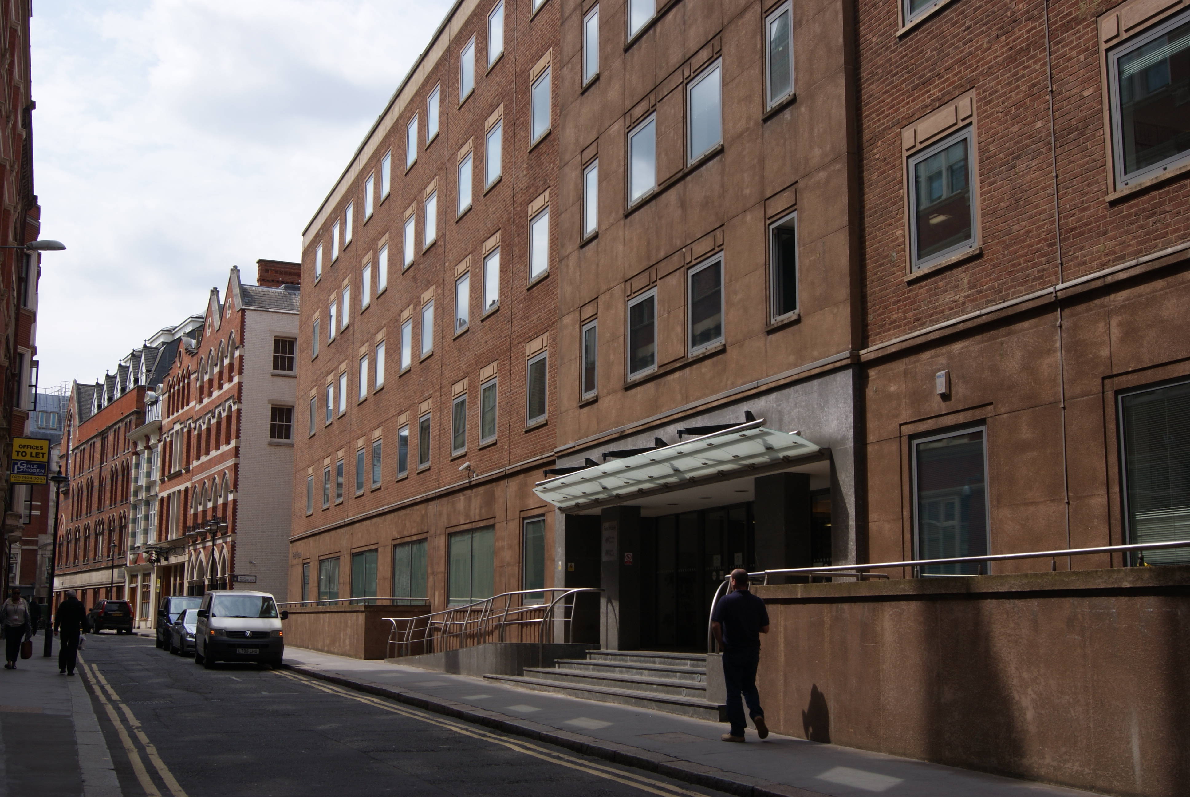 Field House at 15 Bream's Buildings, London EC4A 1DZ, UK, where Her Majesty's Courts and Tribunals Service and the Upper Tribunal are based.